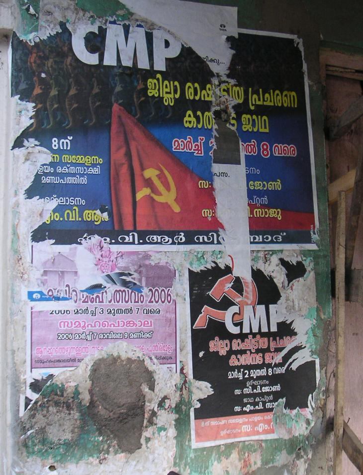 Photo: Soman